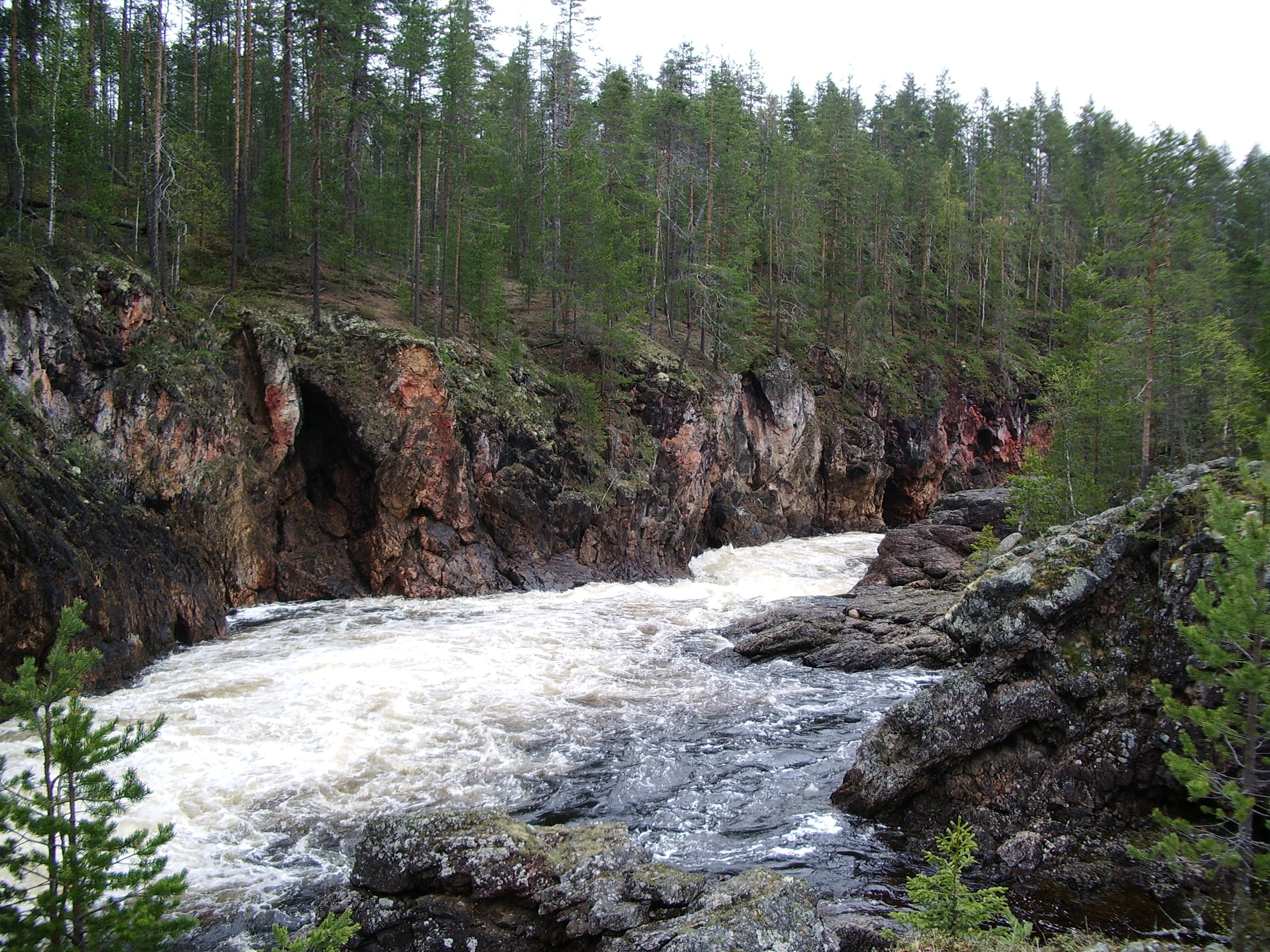 Kiutaköngäs rapids at the Oulankajoki river, Oulanka National Park, Kuusamo, Finland